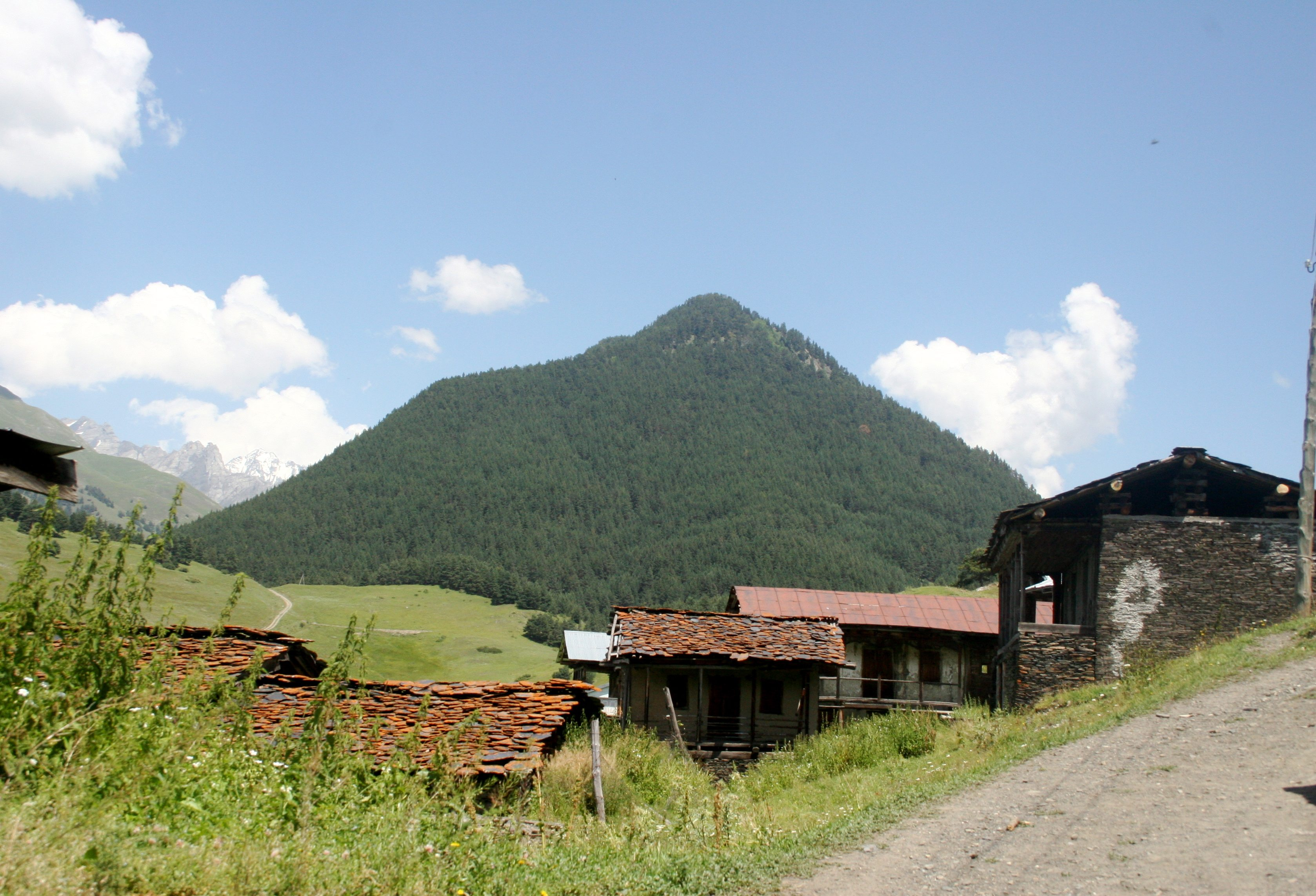 Mount Diklo, view from vil. Shenaqo, Tusheti.